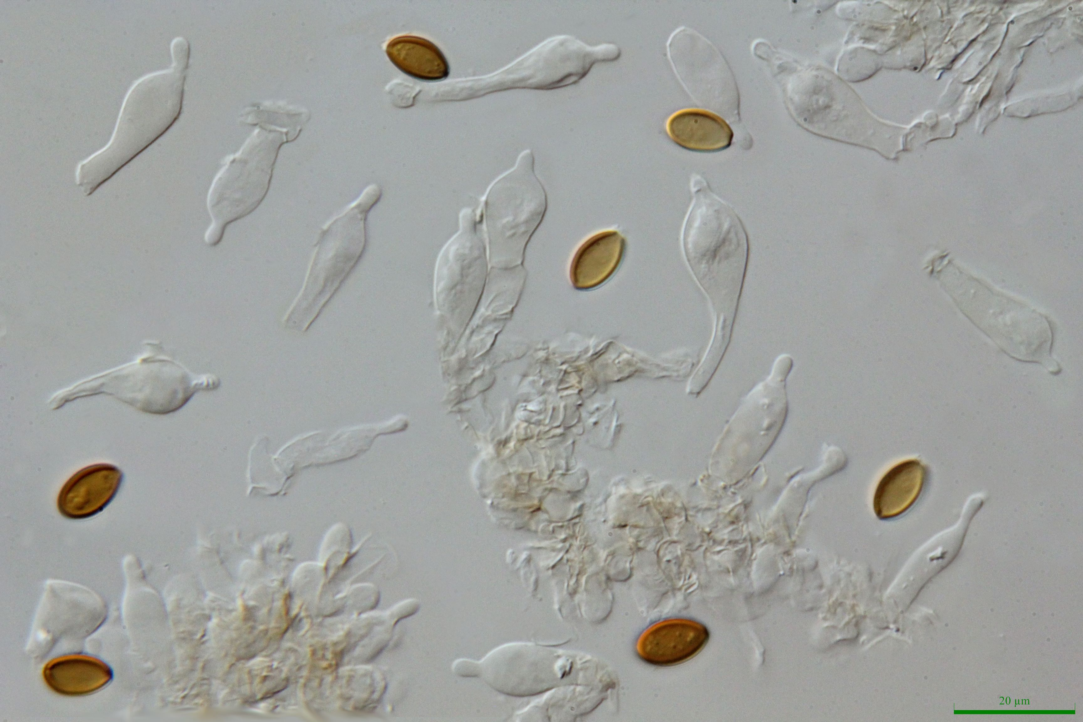 Psilocybe subaeruginosa cheilocystidia squash mount 600x, with DIC illumination